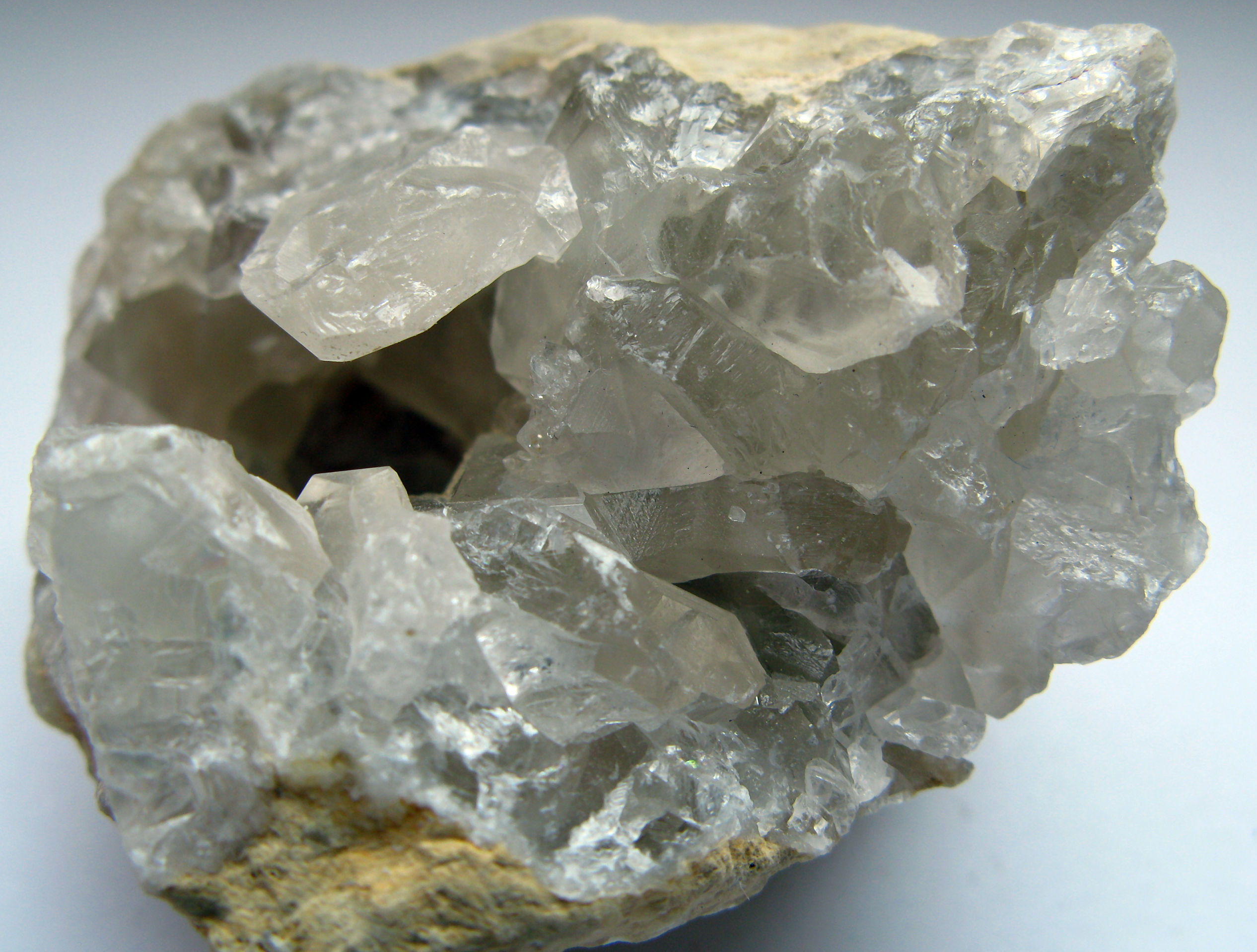 Celestine from Madagascar